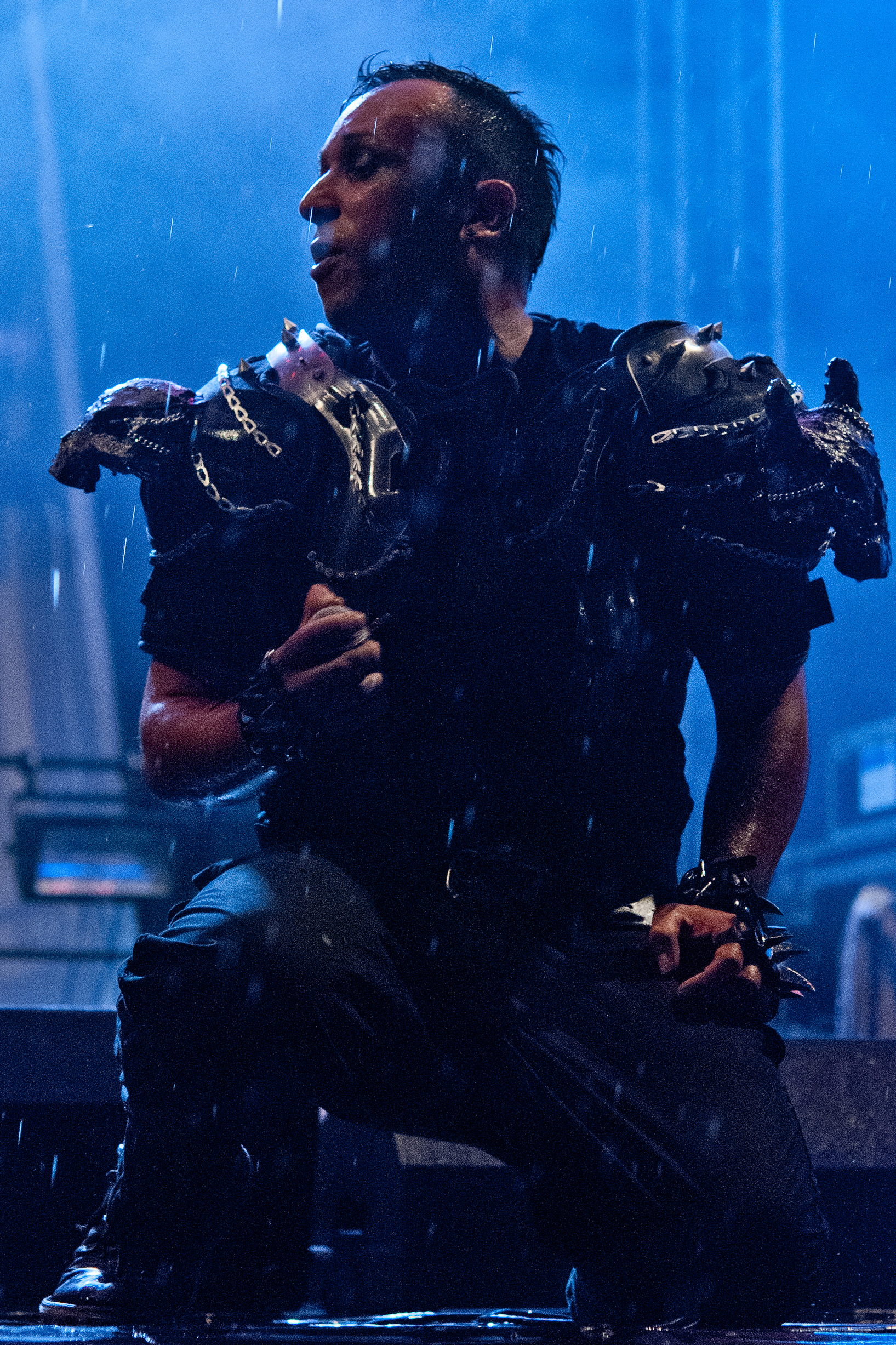 This photo was made in cooperation with CASTLE PARTY PRODUCTIONS in Bolków (webpage) Hocico podczas Castle Party 2012